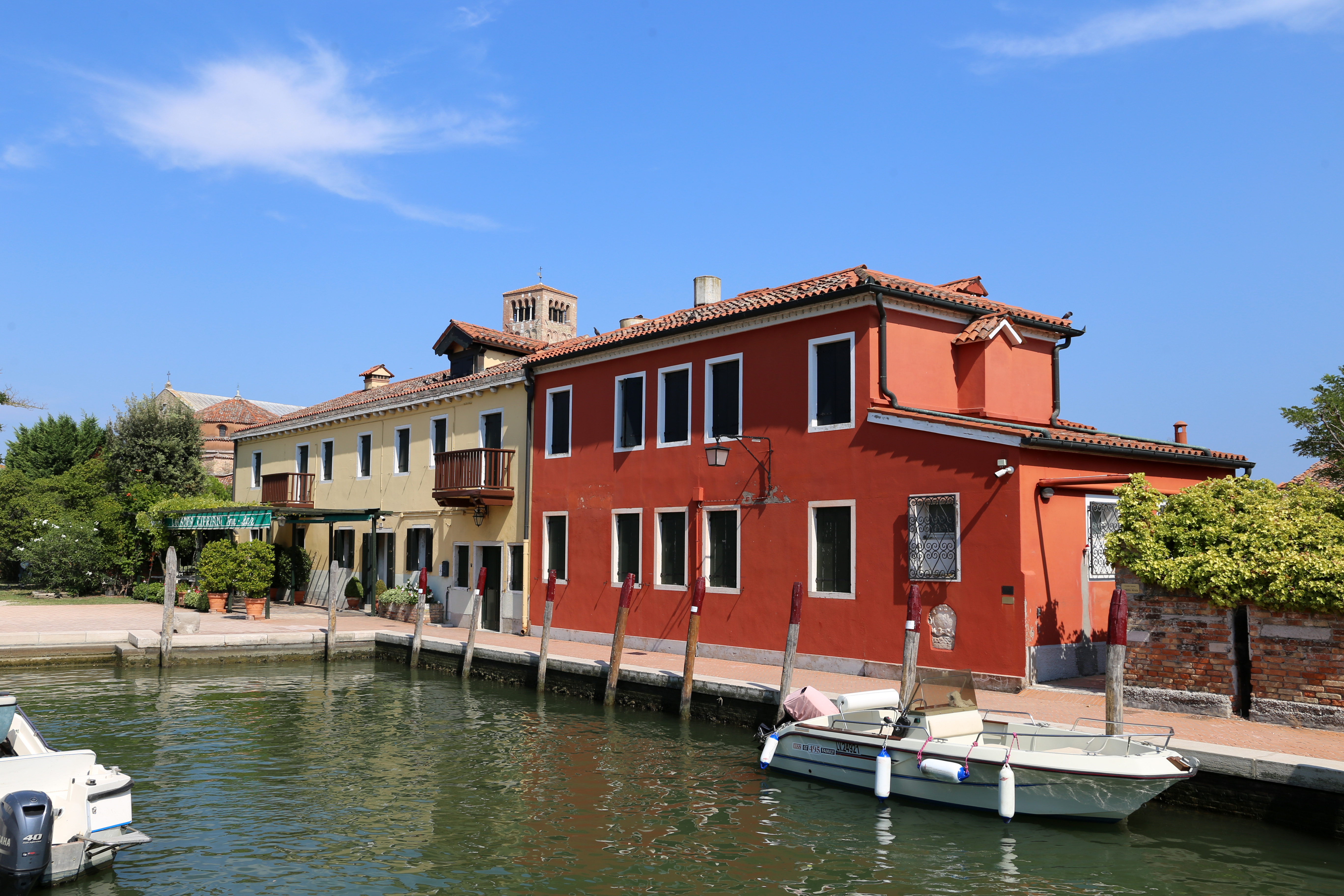 Torcello